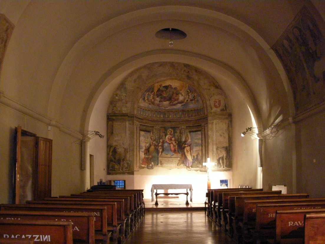 The inside of the church of Saint Maria Maddalena to Faenza